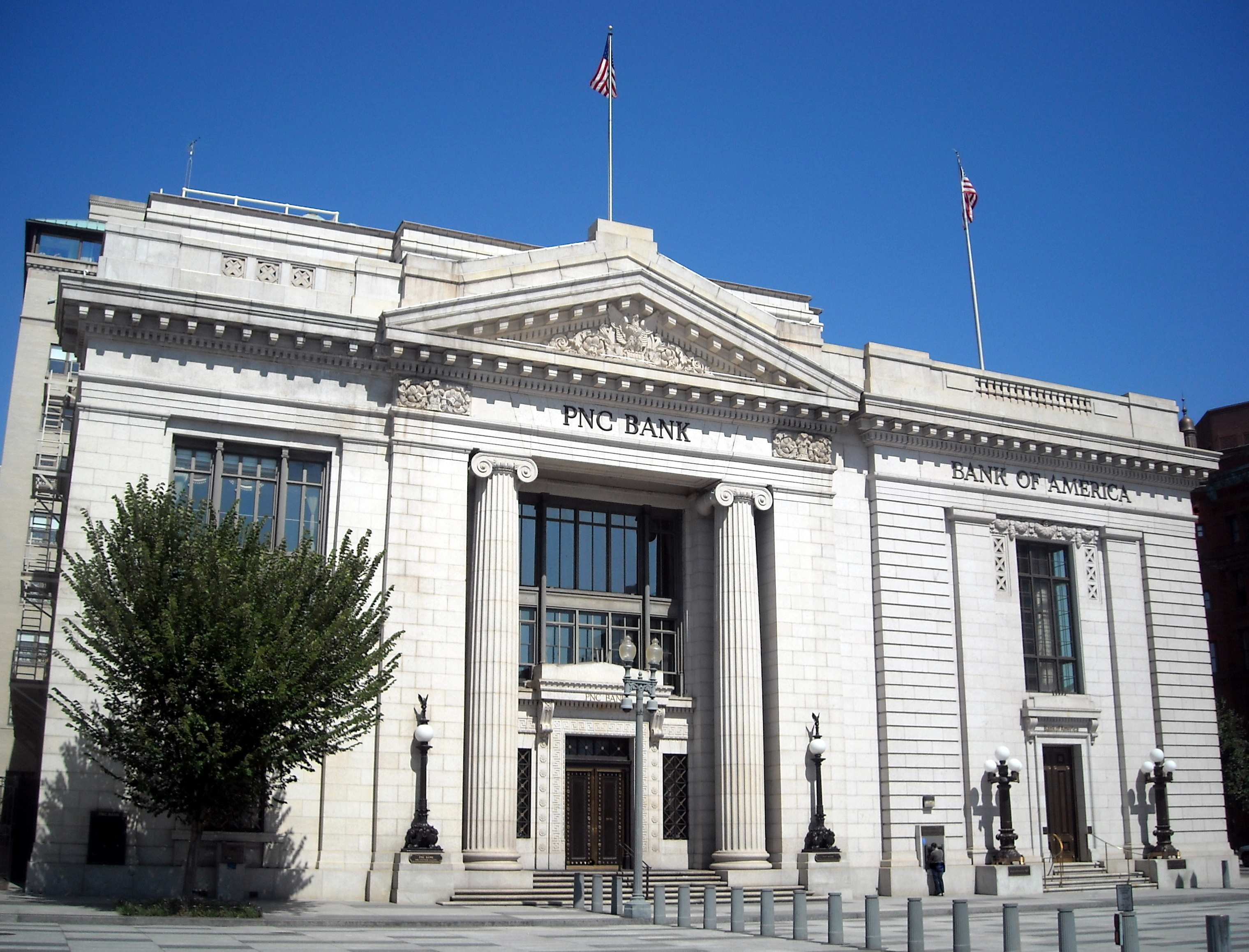 The left building is the former Riggs National Bank located at 1503-1505 Pennsylvania Avenue NW in downtown Washington, D.C. Construction of the Classical Revival style building was completed in 1902 to the designs of architectural firm York and Sawyer. The building served as a branch for PNC Bank following the dissolution of Riggs Bank in 2005. On the right is the American Security and Trust Company Building located at 1501 Pennsylvania Avenue NW. Construction of the neoclassical style building was completed in 1905 also to the designs of York and Sawyer. The property currently serves as a branch for Bank of America. Each building (the two properties are sometimes mistakenly thought to be a single building) was listed on the National Register of Historic Places (NRHP) in 1973. In addition, the buildings are designated contributing properties to the Lafayette Square Historic District, a National Historic Landmark added to the NRHP in 1970, and the Fifteenth Street Financial Historic District, listed on the NRHP in 2006.